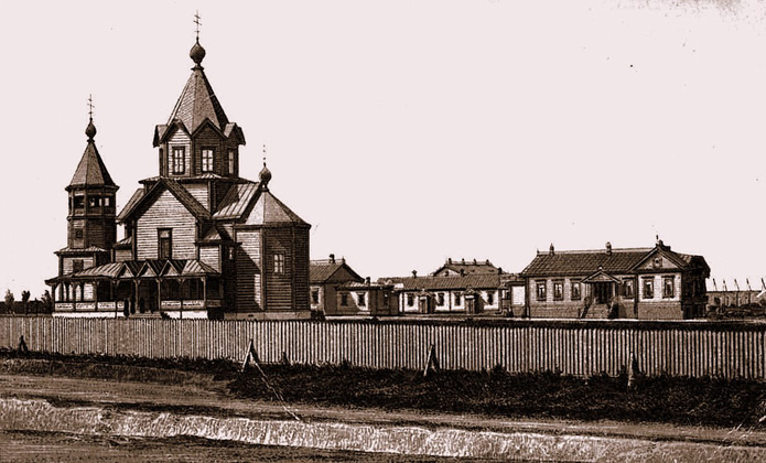 The first temple at the crash site, founded in 1891